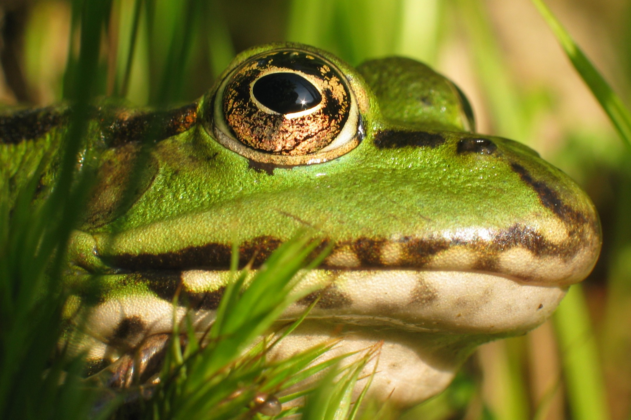 head of waterfrog (Rana esculenta)